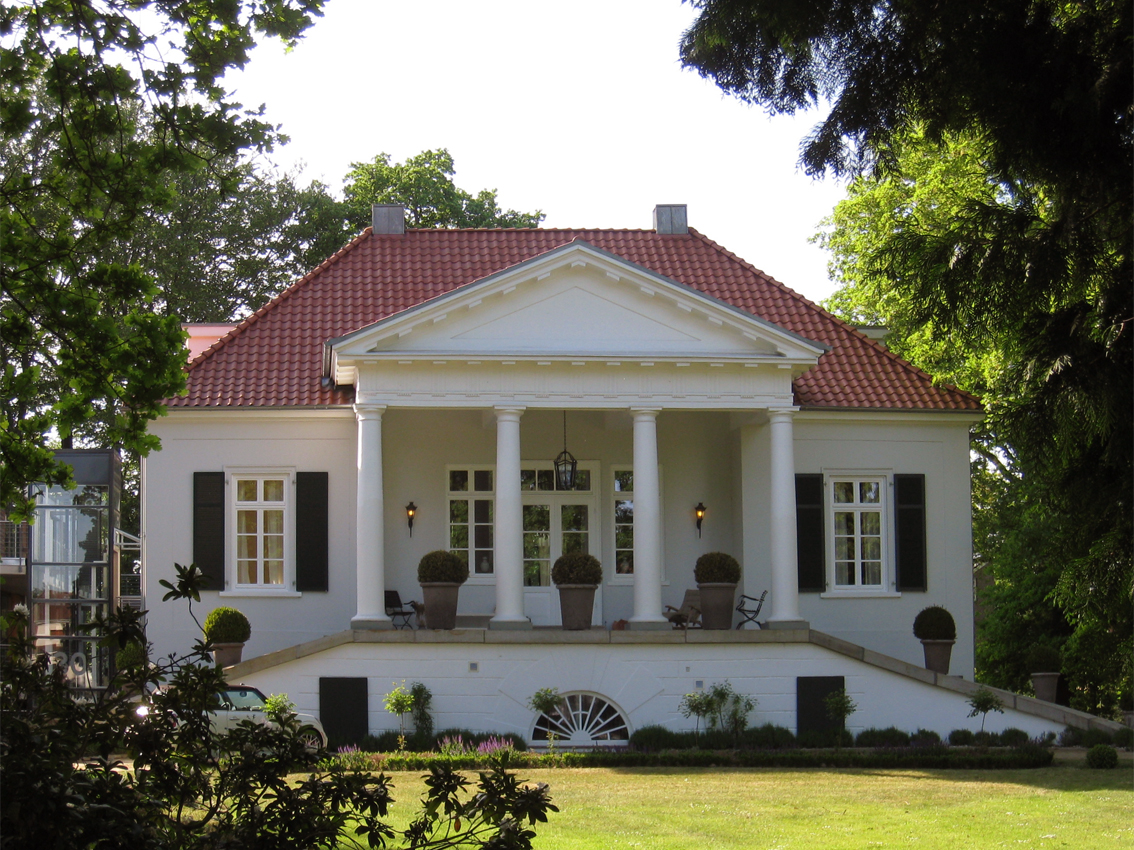 The neoclassical mansion Gut Holdheim (also known as Landgut Holdheim or Herrenhaus Holdheim) in Oberneuland, Bremen (Germany), built in 1809 by Hinrich Kaars.